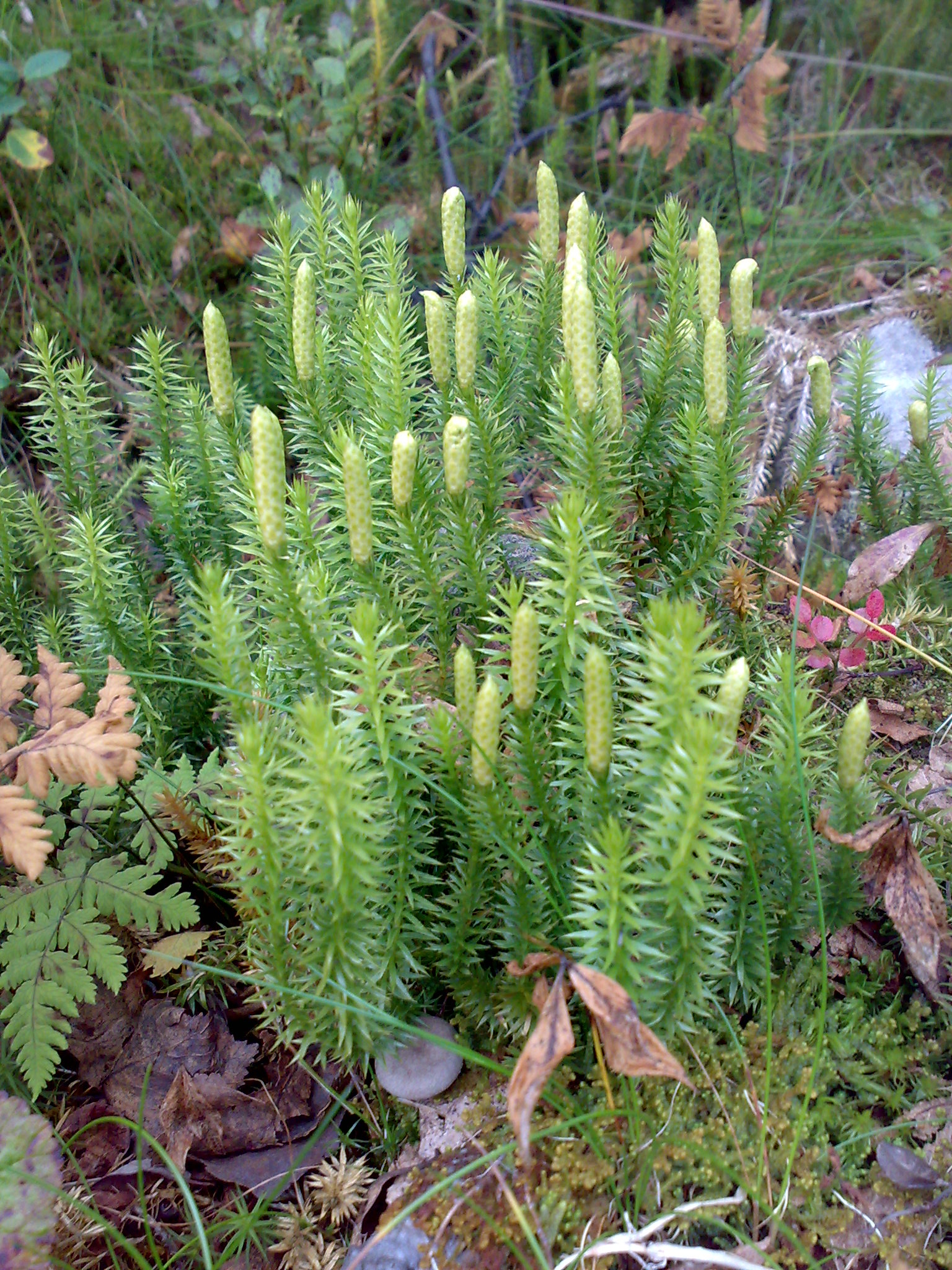 Lycopodium annotinum in Sigdal, Norway. Altitude 900 metres.